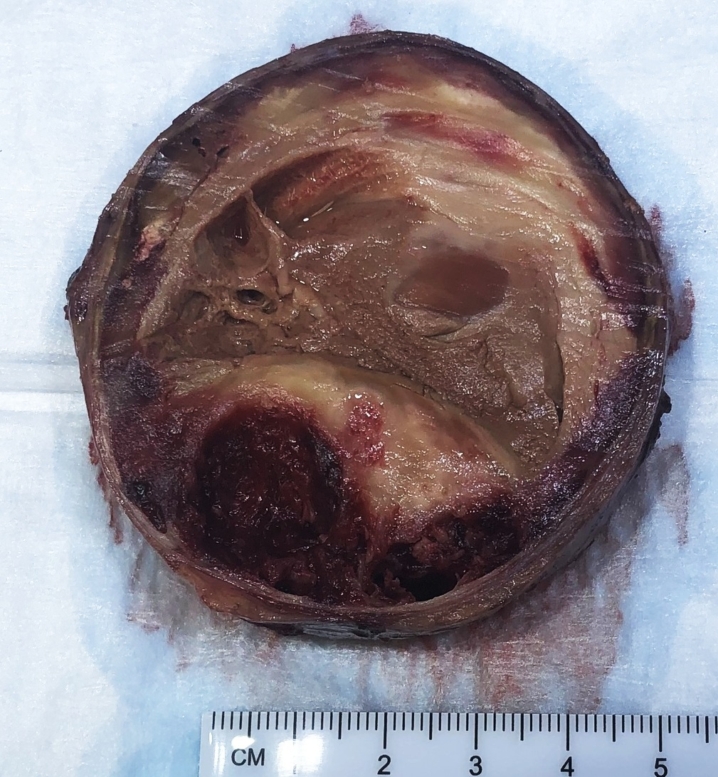 Cross-section of an aneurysm, from an upper extremity artery, showing most of the area consisting of organized mural thrombus (tan-brown area).